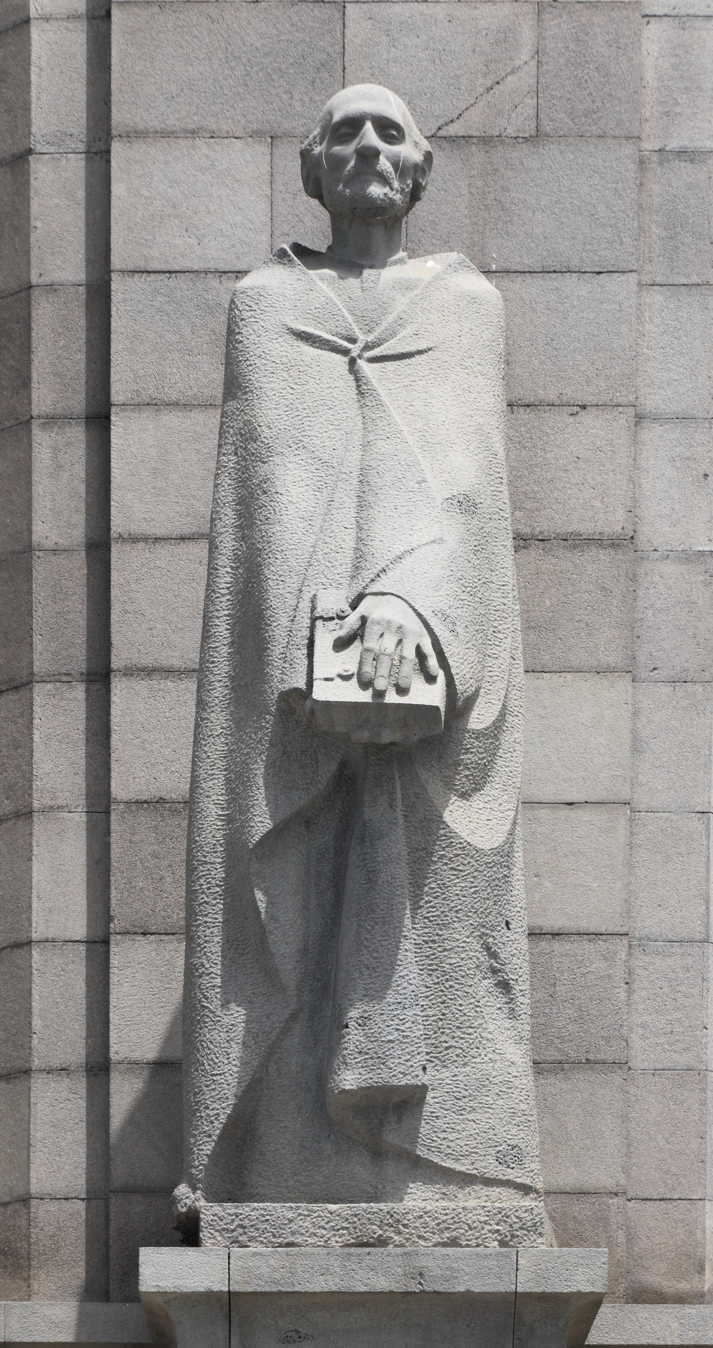 Statue of Mkhitar Gosh. Matenadaran. Yerevan, Armenia.